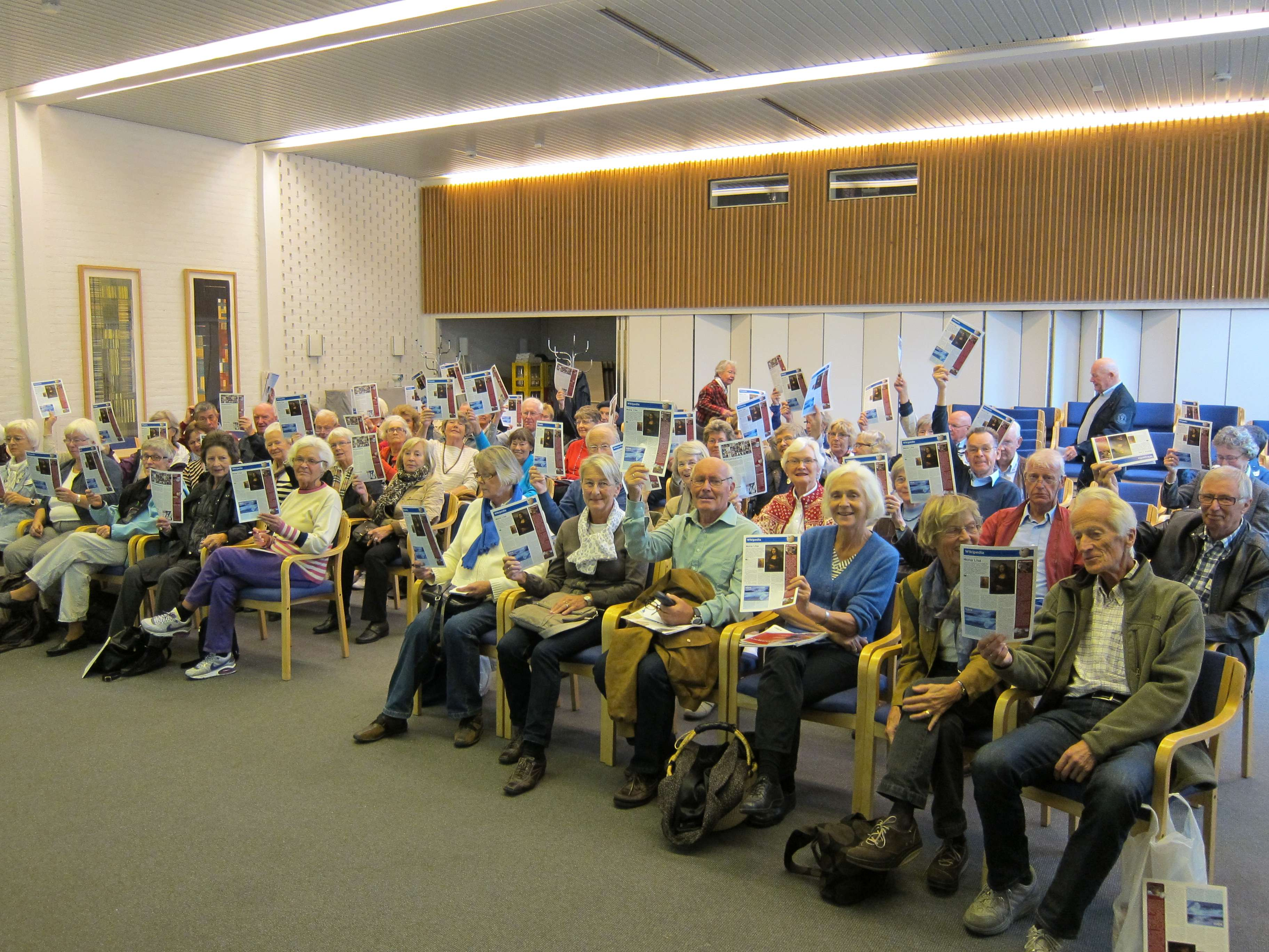 Group of senior citizen's having lecture about Wikipedia in Bekkestua Library, Bærum, Norway, arranged by Wikimedia Norge